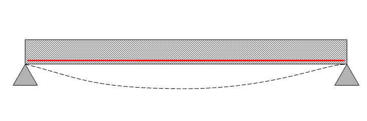 Reinforeced condrete beam scheme